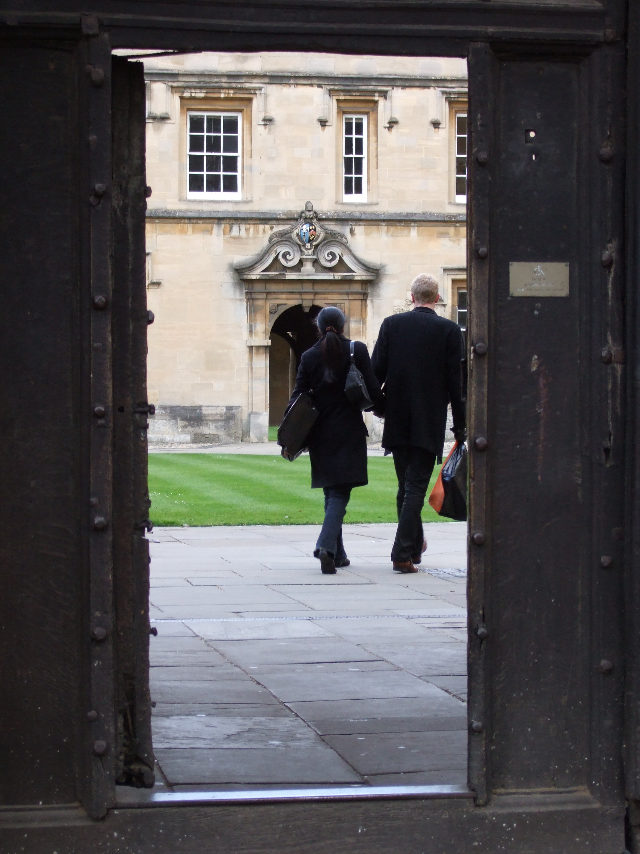 The inside of an Oxbridge college (the front quadrangle of St John's College, Oxford) glimpsed through an open wicket gate. Paving stones lead to a grass lawn in front of an old two-storey building in yellow-pink stone, with sash windows on the upper floor above a passage entrance decorated with roccoco carving and painted crest, leading to another grassed quadrangle. A male and female student, similarly dressed in short black coats, are walking in step away from the gate and into the depths of the college carrying their bags and holding hands.